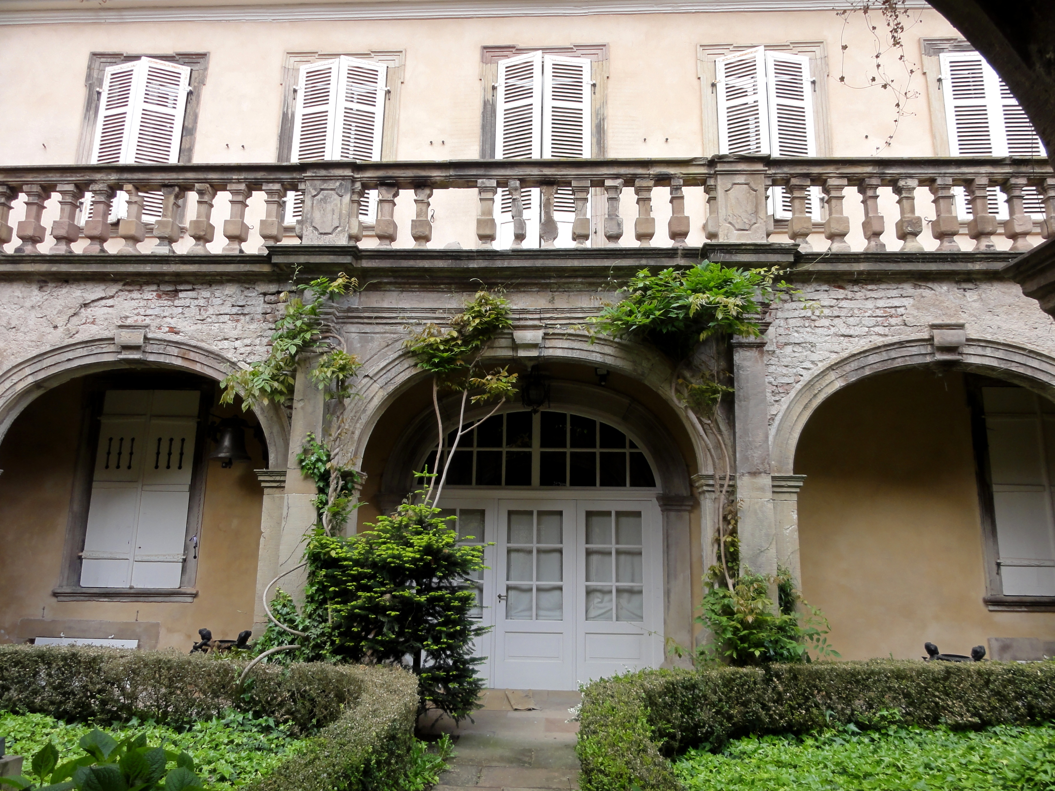 Alsace, Bas-Rhin, Sélestat, Hôtel de Chanlas (XVIIIe), 1 rue des Franciscains. It is indexed in the Base Mérimée, a database of architectural heritage maintained by the French Ministry of Culture, under the references PA00084984 and IA00124639 .